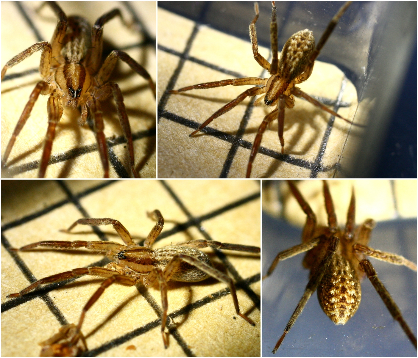 Zora spinimana (Zoridae). Female, c.4.9mm long, from heather. Bricket Wood Common, Hertfordshire, England, 26th March 2010. For more info... Species Summary from Spider Recording Scheme Map from NBN Gateway Pavouci CZ Jorgen Lissner - male, female